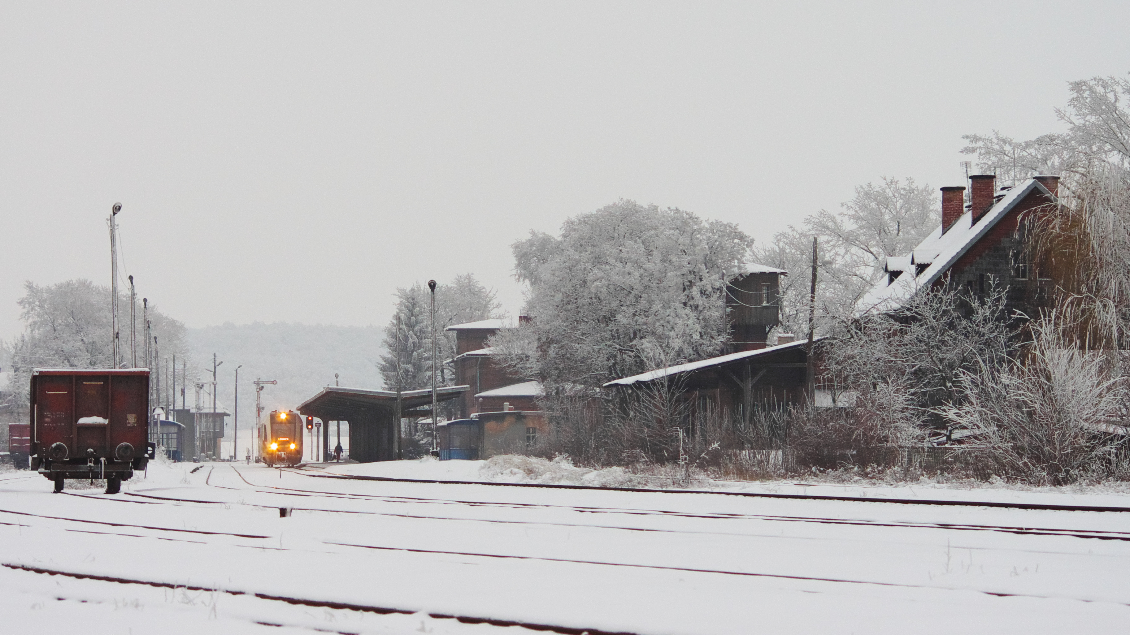 Railway Station in Piława Górna with SA135-008 waiting for passengers.